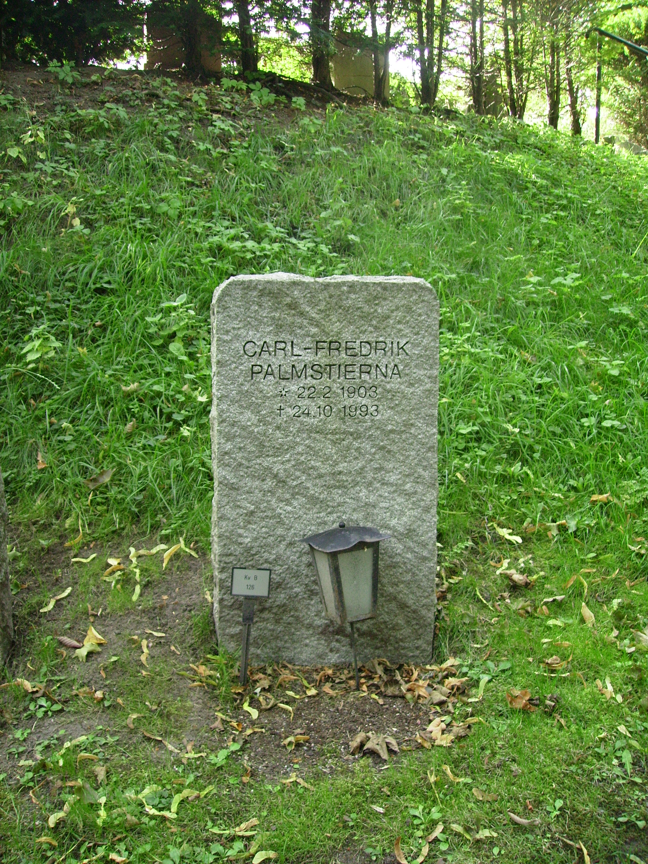 Picture of Carl-Fredrik Palmstierna's grave at Galärvarvskyrkogården in Stockholm